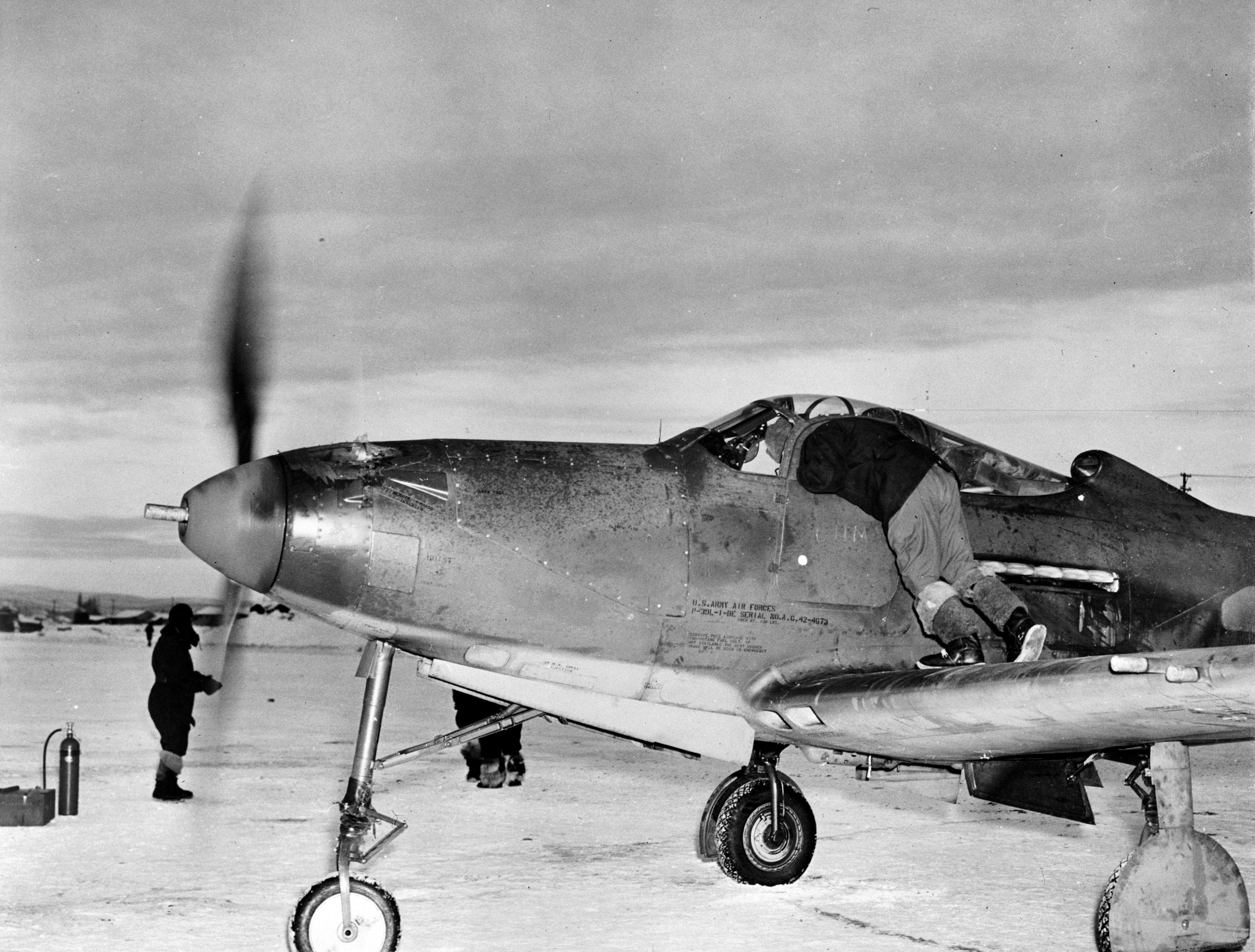 A Bell P-39L-1-BE Airacobra (USAAF s/n 42-4673?) at Nome, Alaska (USA), in 1943-44. The red Soviet stars under the wings identify this as a lend-lease aircraft ferried to the USSR via Alaska.